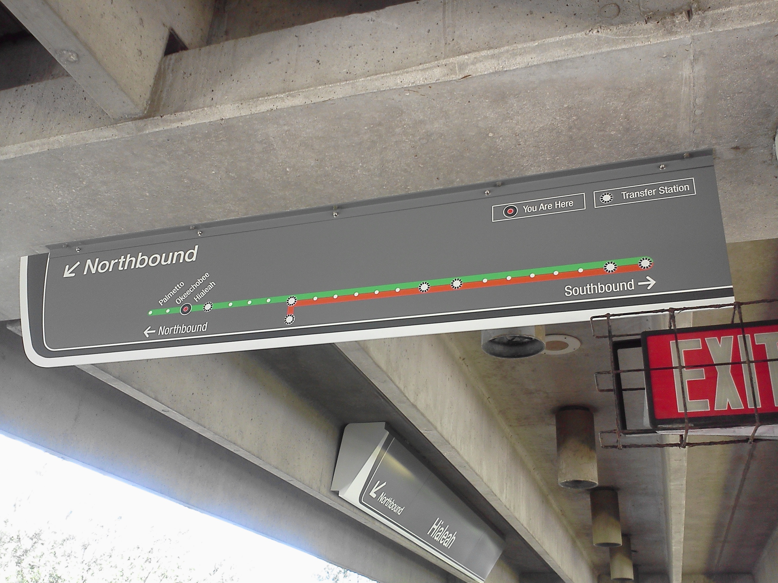 New schematic maps in the Miami Metrorail stations including the new Orange Line.